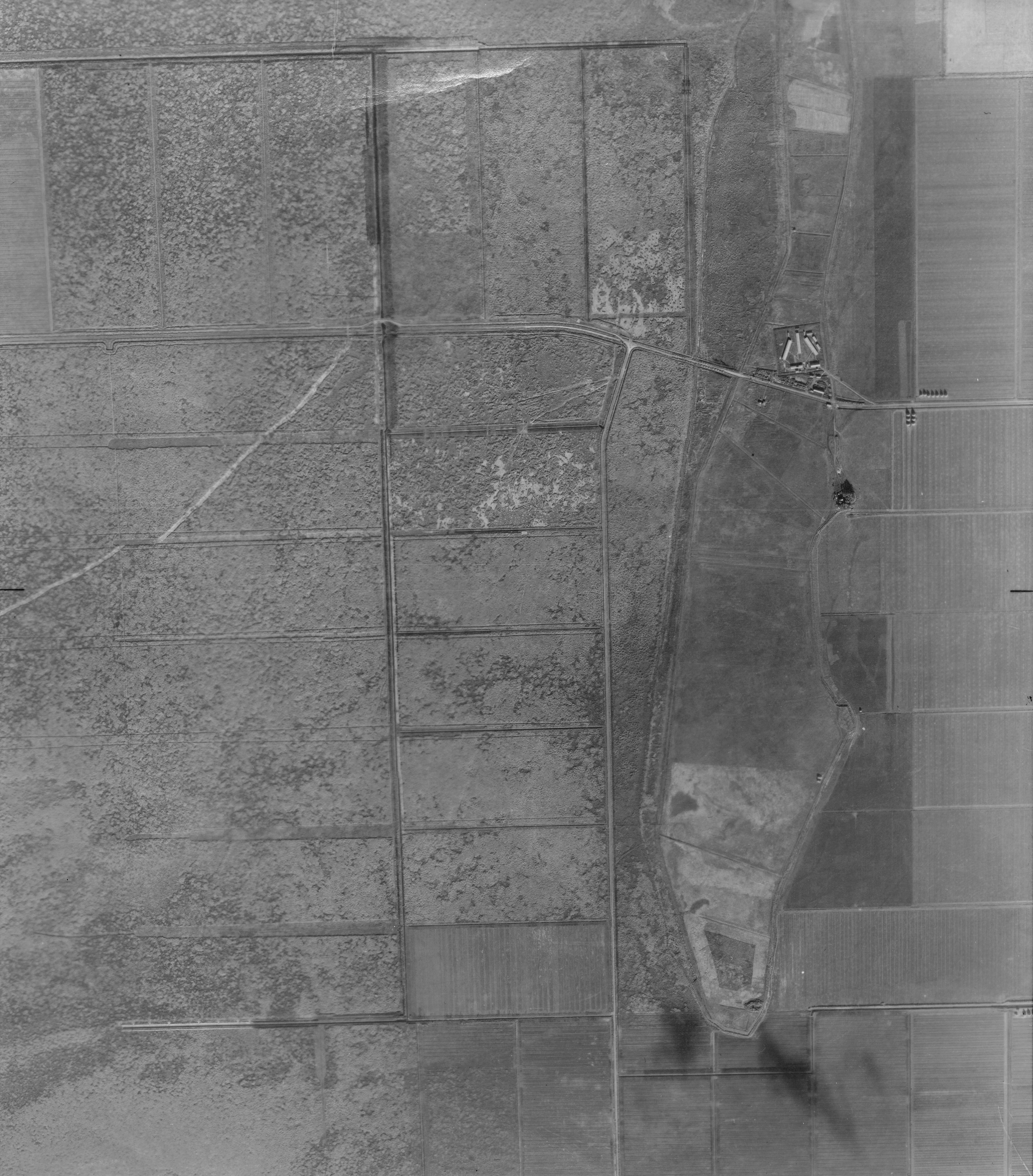 zuidelijke deel van Schokland 1944